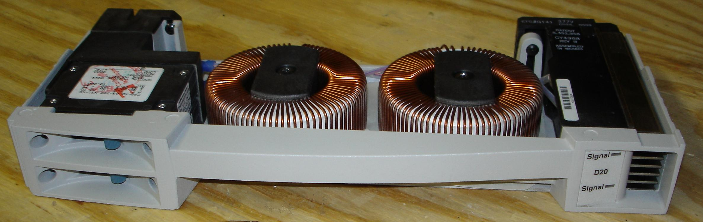 ETC Sensor+ Dimmer- 2400 watts x2 Source: Red River High School Theatre Department Image Archives, Grand Forks Public Schools, Grand Forks, ND Photographer: Jordan Green/JWGreen 00:38, 8 August 2006 (UTC)